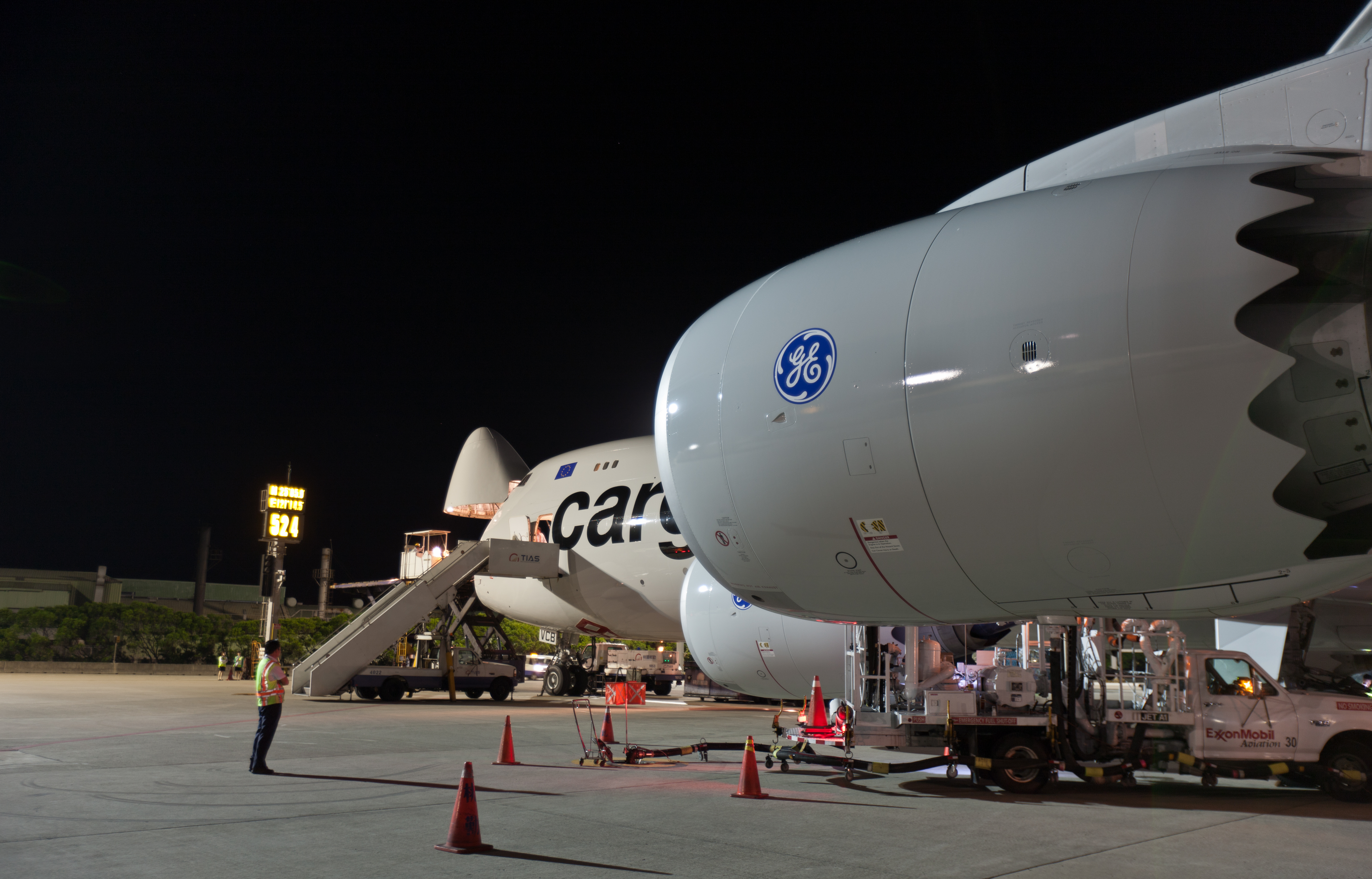 Cargolux Boeing 747-8 (LX-VCB) at Taiwan Taoyuan International Airport